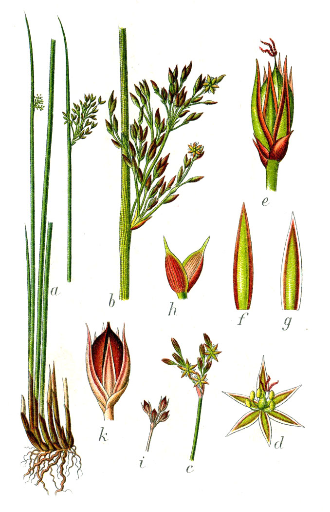 Juncus inflexus L., syn. Juncus glaucus Sibth., nom. ill. Original Caption Bläuliche Binse, Juncus glaucus